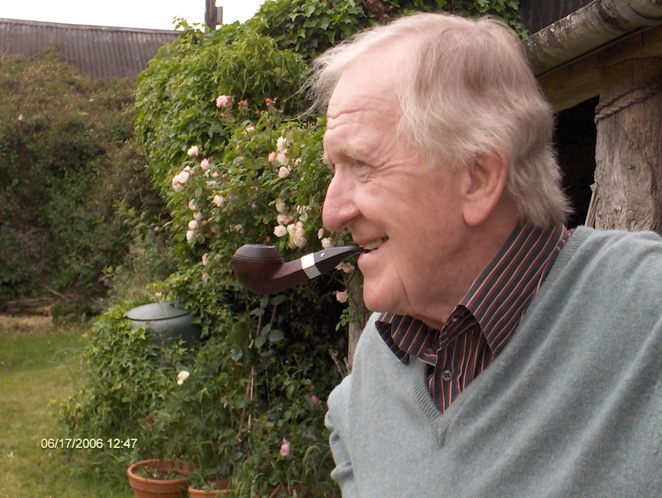 Photograph of the poet P.J.Kavanagh (1931-2015) at home smoking a pipe